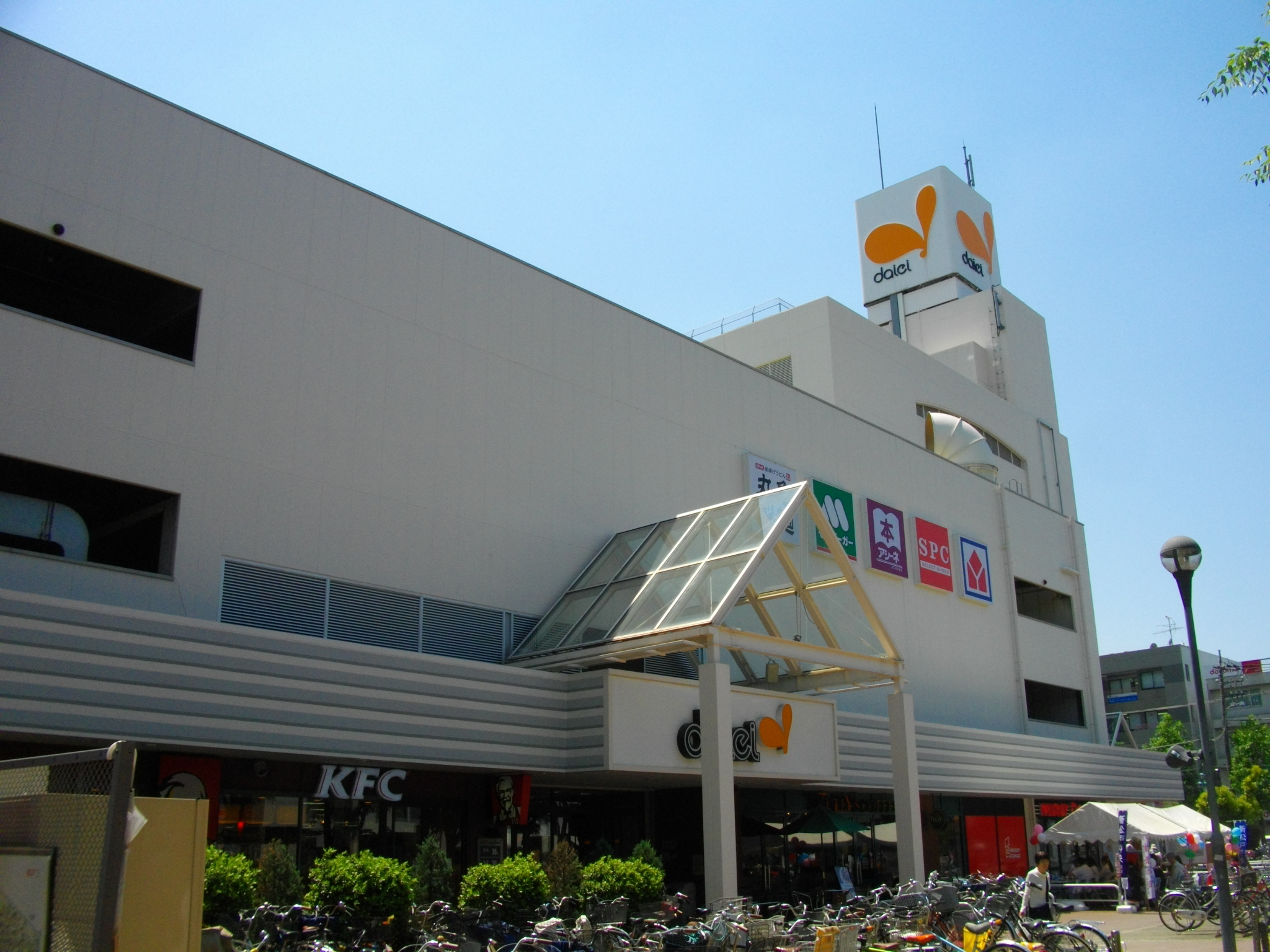 Daiei Shim-Matsudo